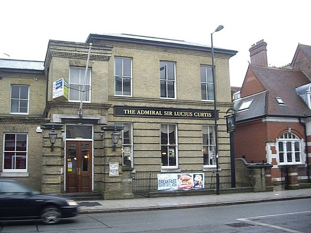 'The Admiral Sir Lucius Curtis' pub On Canute Road, near the access to Ocean Village. Named for a man with a significant career in the RN, yet hardly a household name nationwide. See Lucius_Curtis .